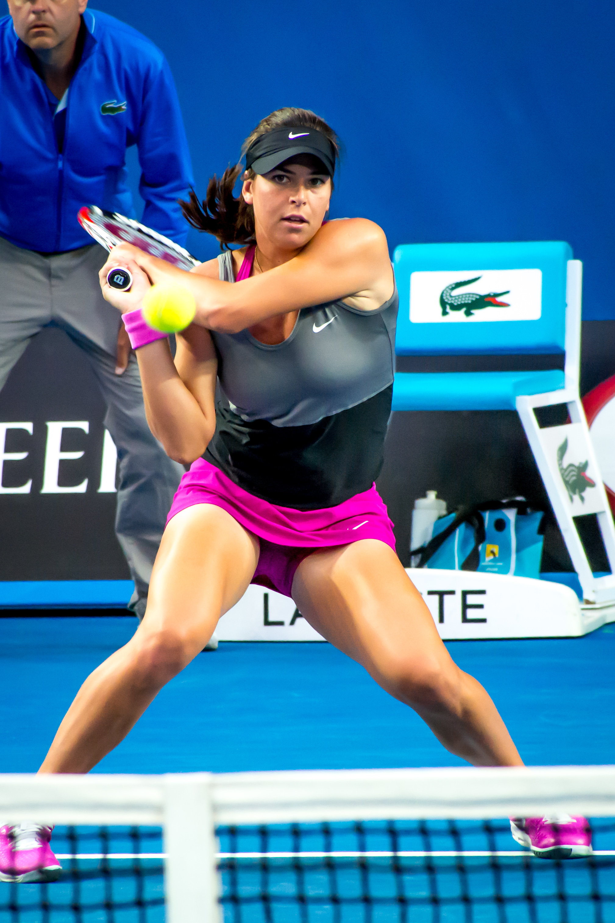 Ajla Tomljanovic (CRO) during her 2nd round 3-set loss to Sloane Stephens (USA) [13] at the 2014 Australian Open on Margaret Court Arena.